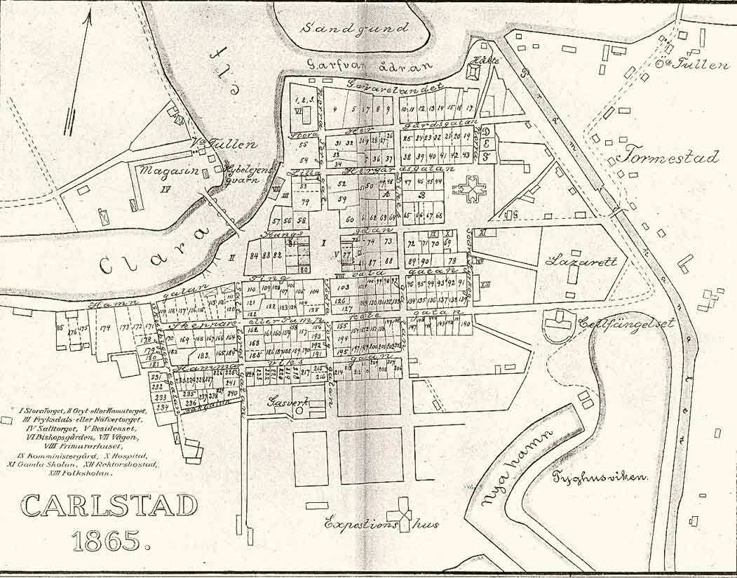 Map of Karlstad before the fire in 1865